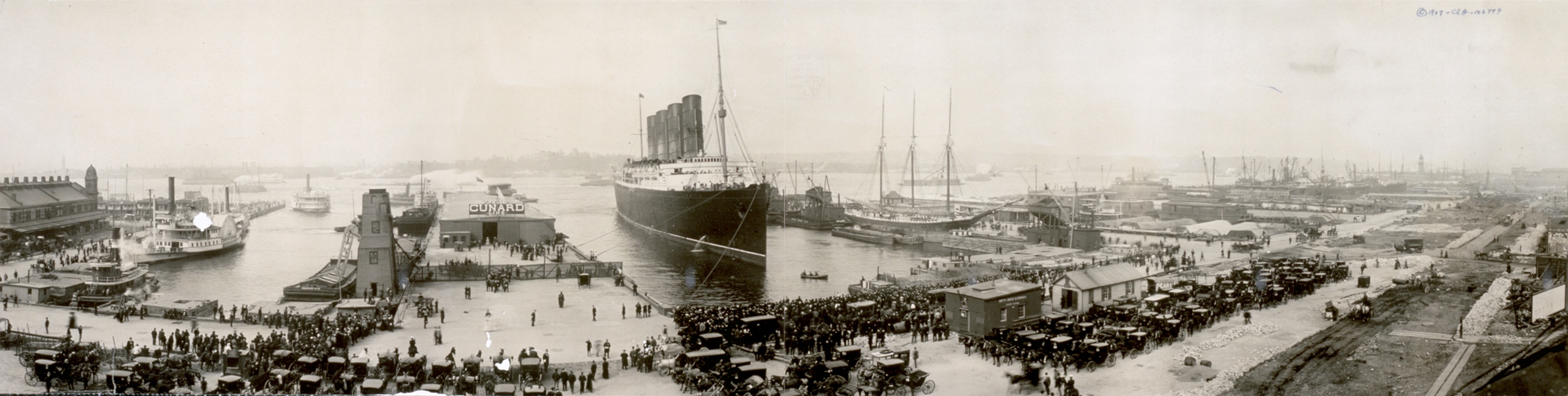 RMS Lusitania at end of record voyage